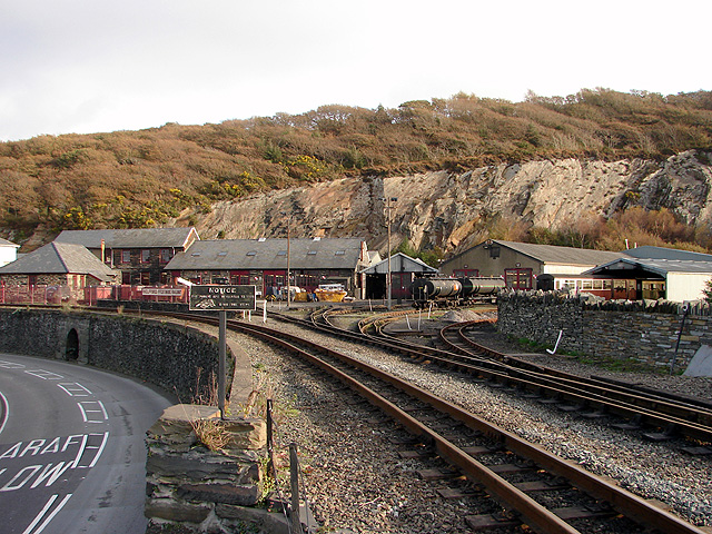 Ffestiniog Railway Boston Lodge works from the Cob.